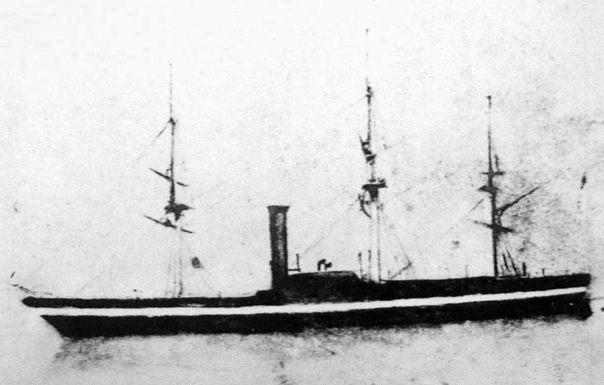 a ship Kurofune ポーハタン号 (Po Ha Ta So- USS Powhatan- a steam paddlewheeler "Kurofune" or "Black Ships" of Commodore Perry's second visit to Japan. 黒船